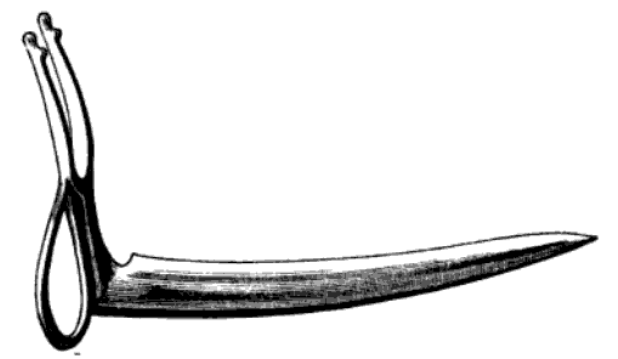 Cock-spur (tari) used in the Philippine Islands for fighting cocks